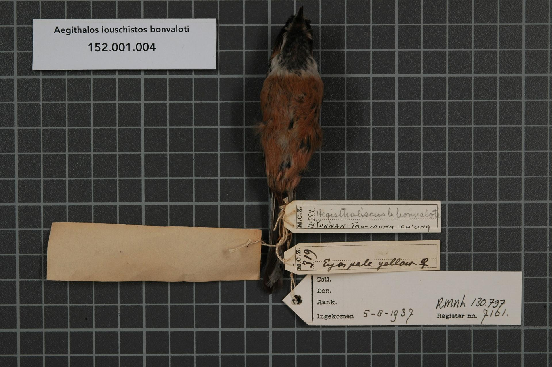 Aegithalos iouschistos bonvaloti (Oustalet, 1891)